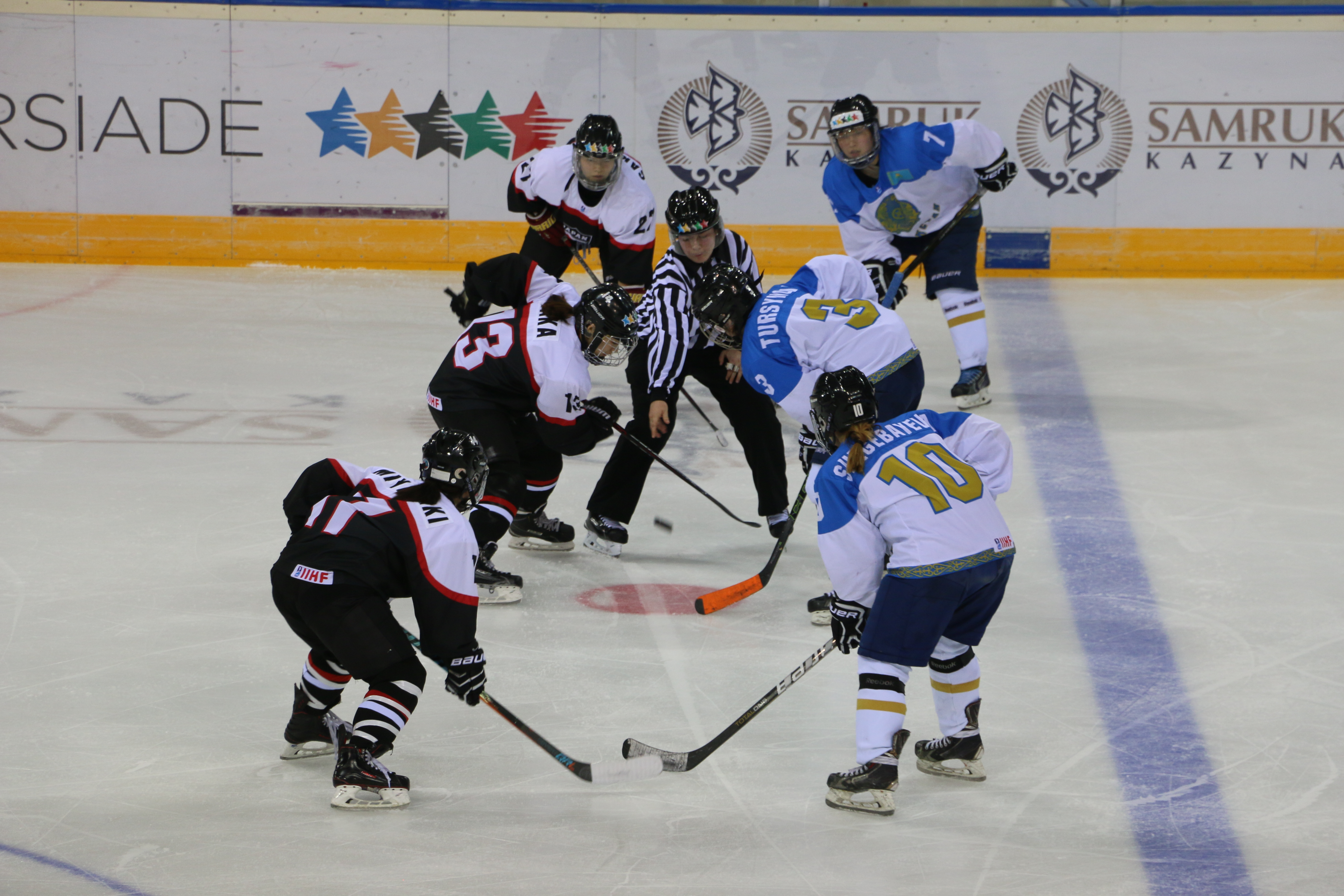 Universiade 2017. Ice hockey. Women. KAZ - JPN